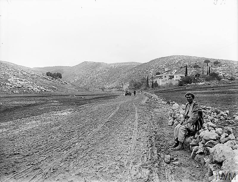 (The Jaffa–Jerusalem road near the Bab al-Wad Caravanserai (a roadside inn